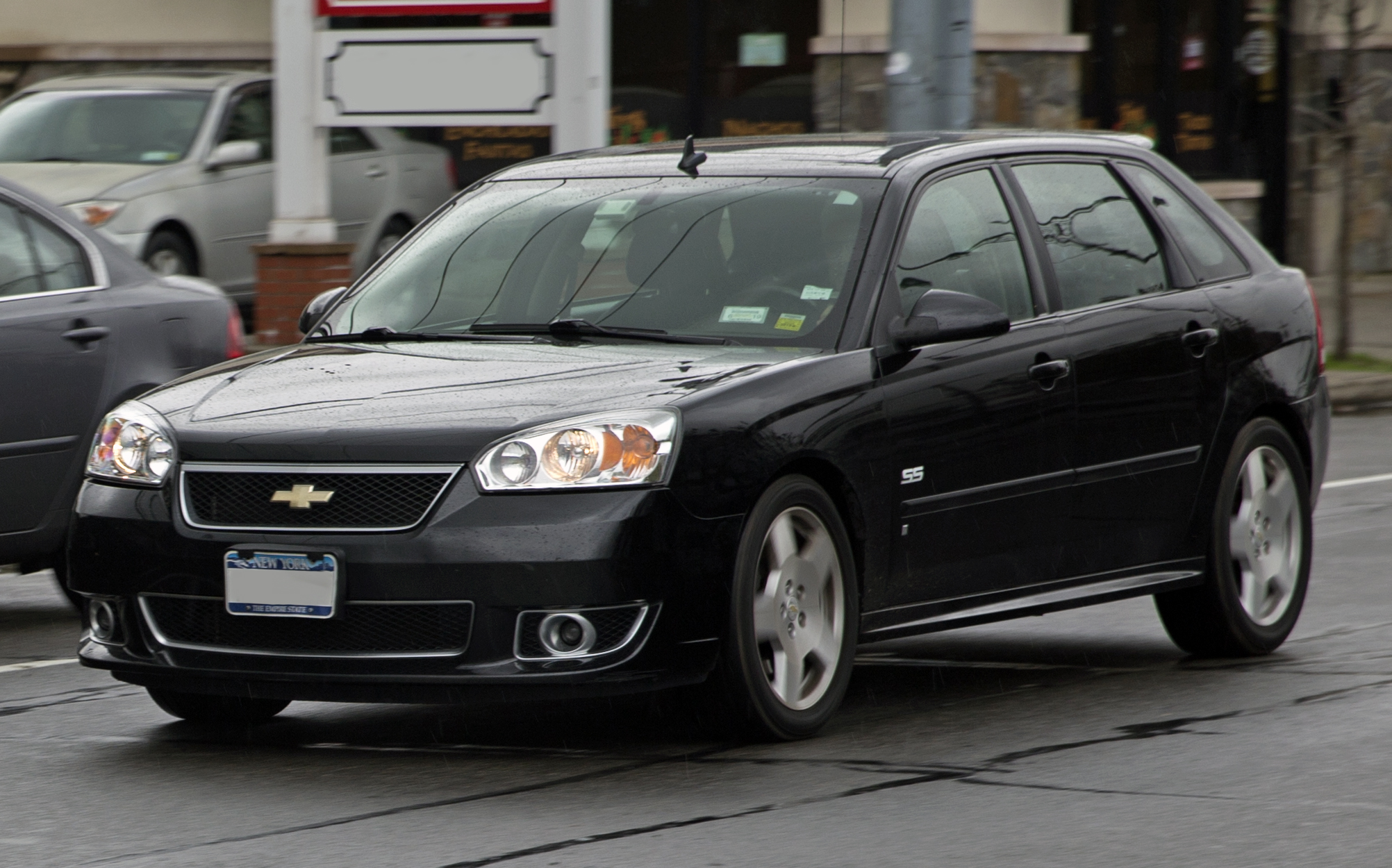 2006 Chevrolet Malibu MAXX SS, trying its best to evade my lens.